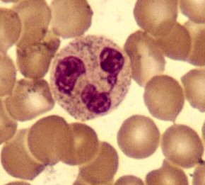 Neutrophil granulocyte smear, May-Grünwald-Giemsa staining. 100x oil immersion.